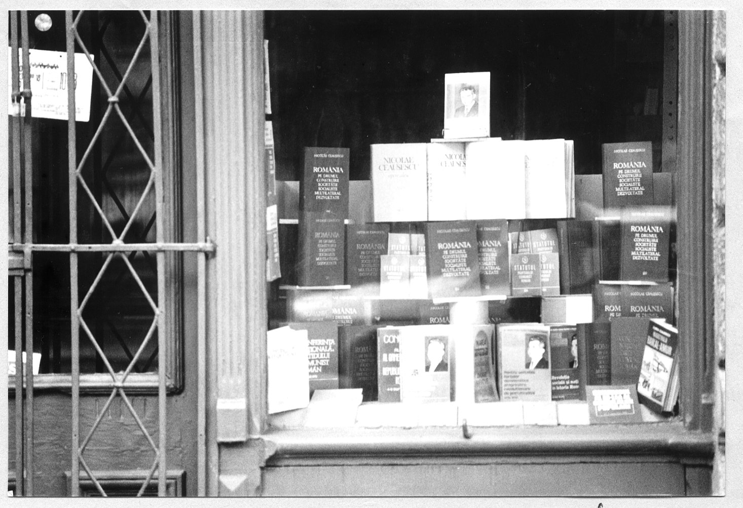 Bookshop in Bucharest, Ceausescu's time